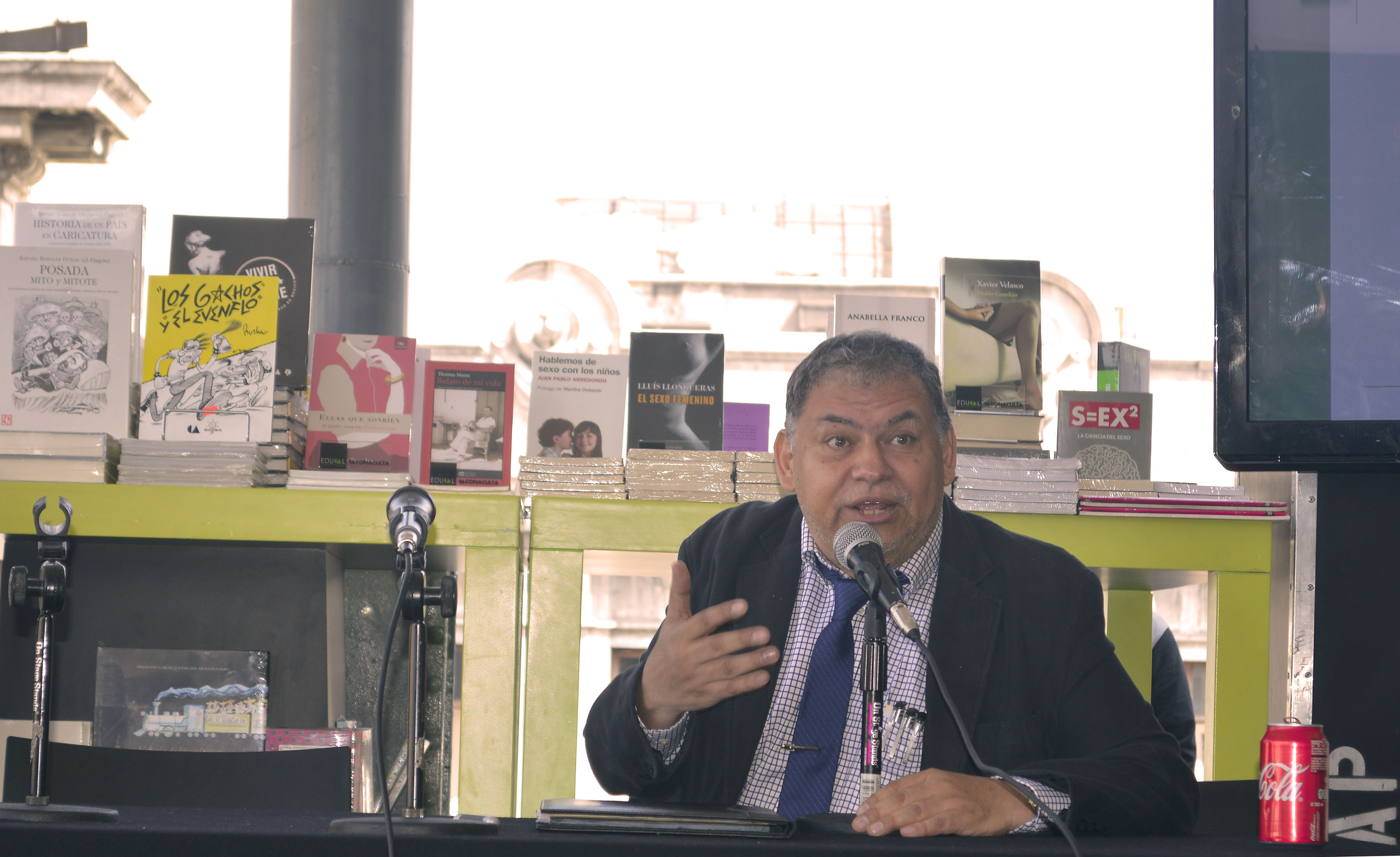 Lauro Zavala at a speech in Mexico City. Saturday, October 15, 2016.